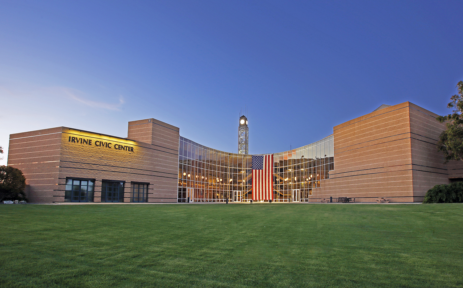 Irvine City Hall building displays American flag.